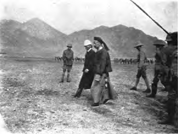 Colonel Younghusband and the Qing Dynasty Amban You Tai of Lhasa, at the horse races (in 1904) during the 1903-04 British expedition to Tibet.